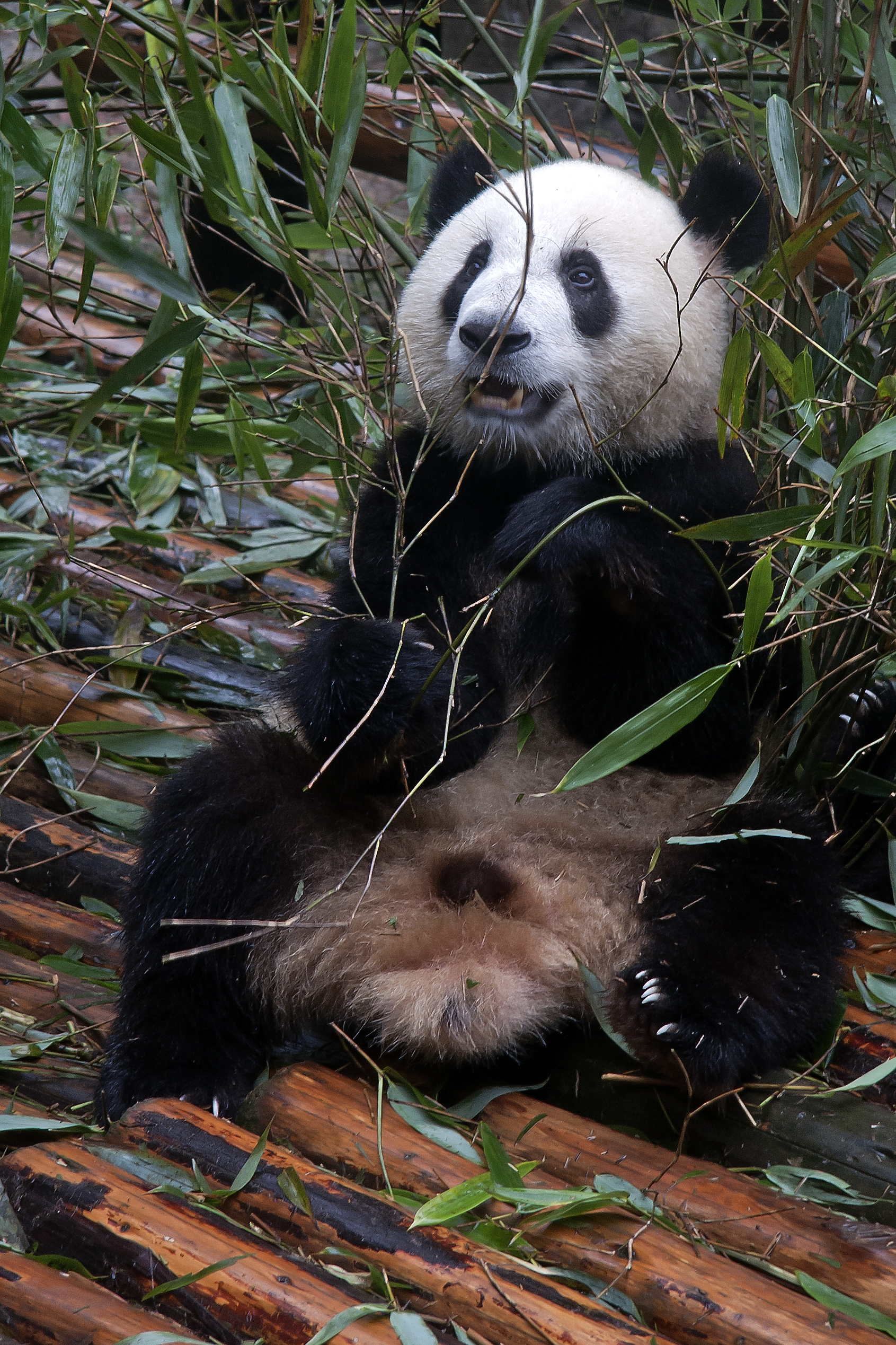 Juvenile giant panda at the Chengdu Research Base of Giant Panda Breeding in China.